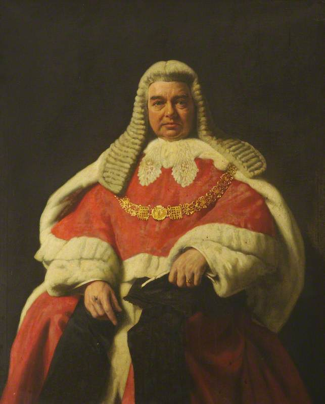 Portrait of Gordon Hewart, 1st Viscount Hewart (1870-1943), Lord Chief Justice